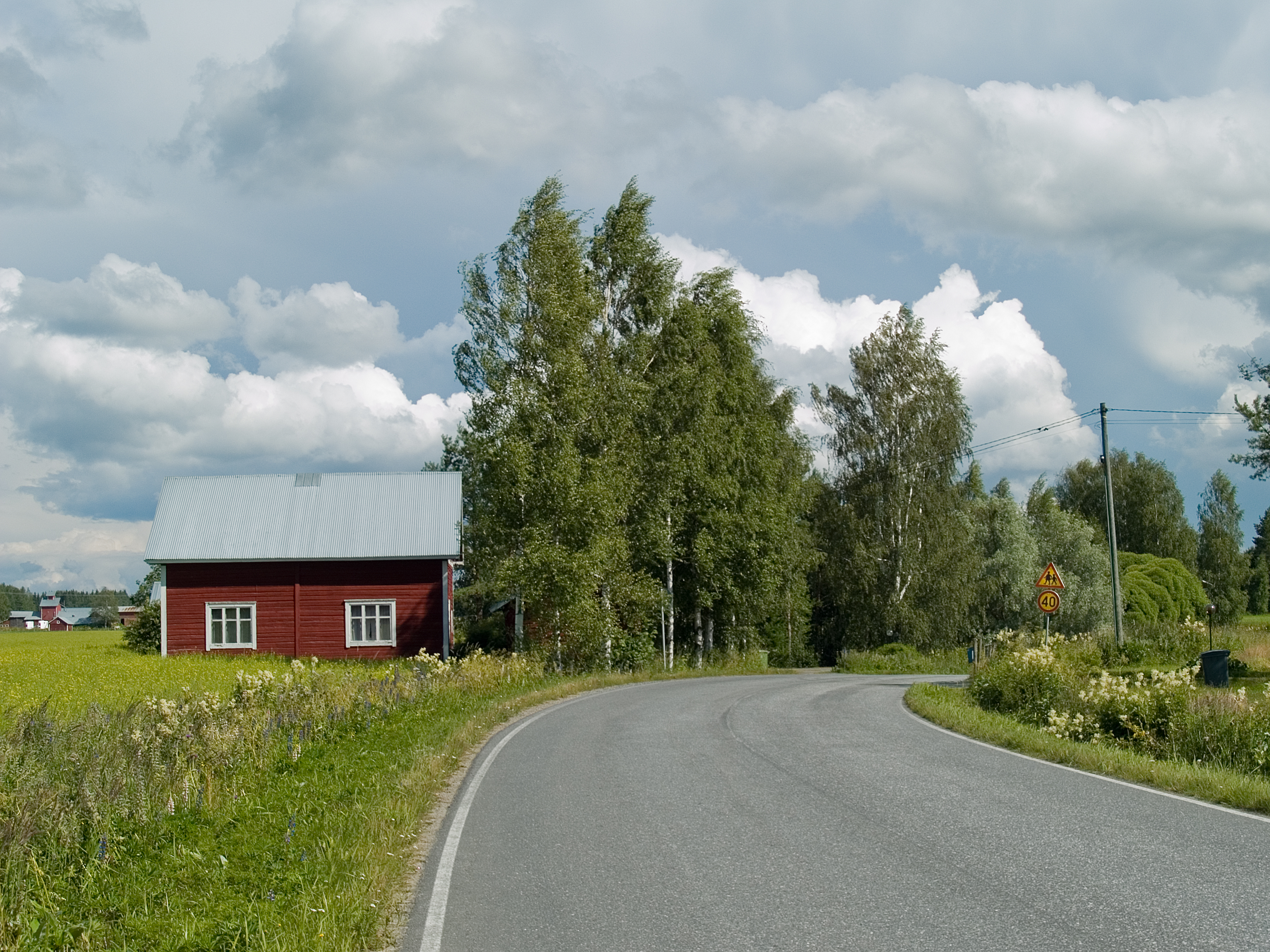 Bend in the road when approaching the Tuomikylä village from the centre of Ilmajoki, Finland.